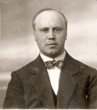 Dutch author Willem de Mérode at the age of 34